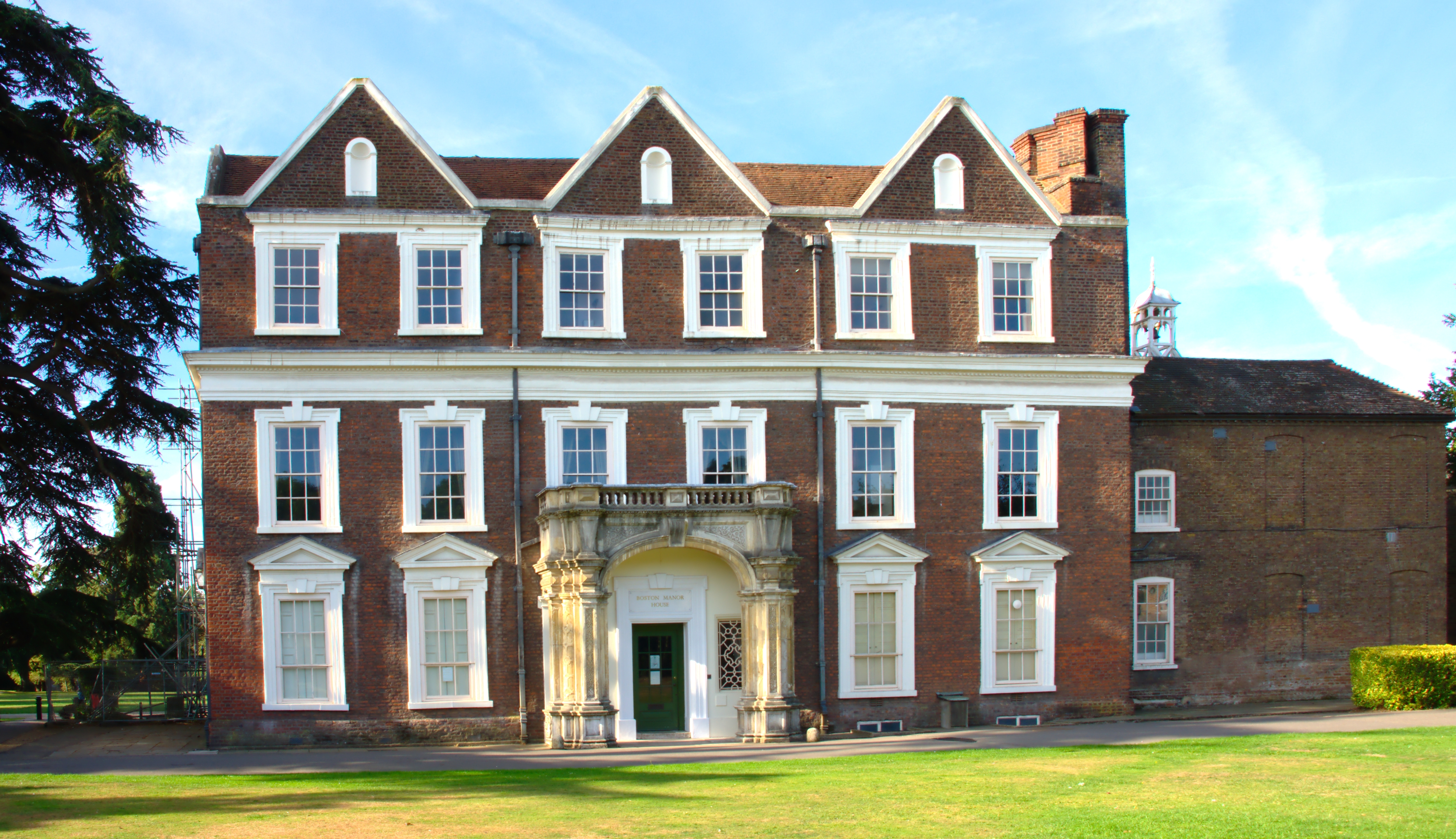 Boston Manor House is a Grade I listed Jacobean manor house in Boston Manor Road, Brentford, TW8 9JX. United Kingdom. Tel: +44 020 8583 4463. Building currently owned by the London Borough of Hounslow.